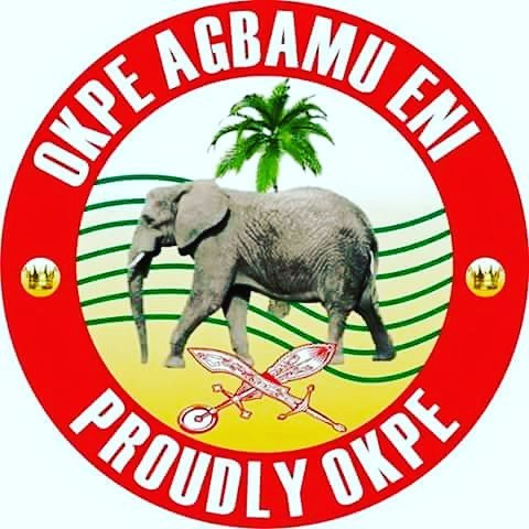 This is the symbol of the okpe which are from the south south part of Nigeria